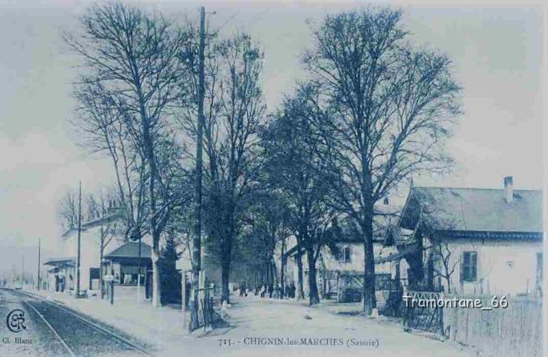 The train station of Chignin - Les Marches (Chignin, France) circa 1904.